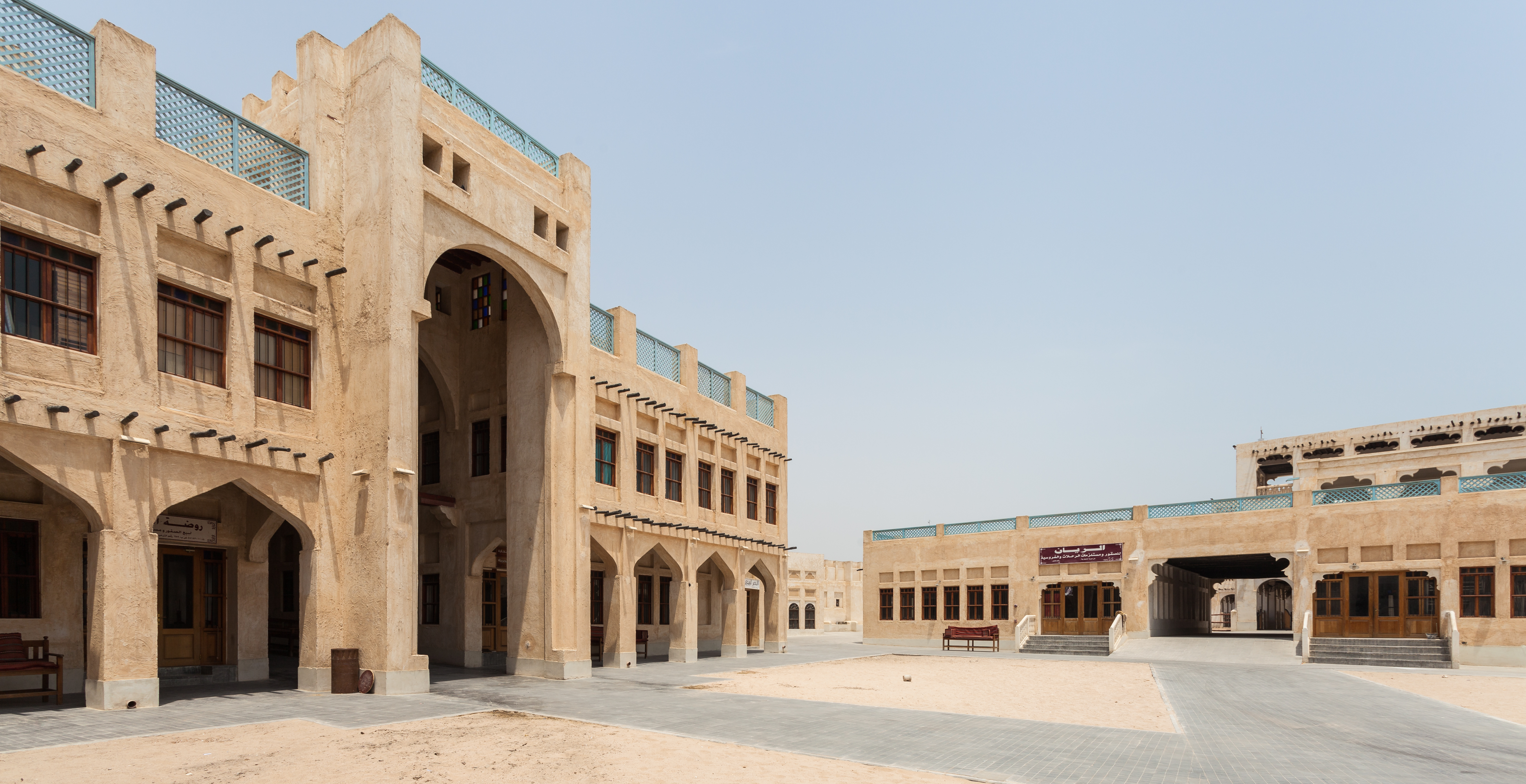 Souq Waqif, Doha, Qatar